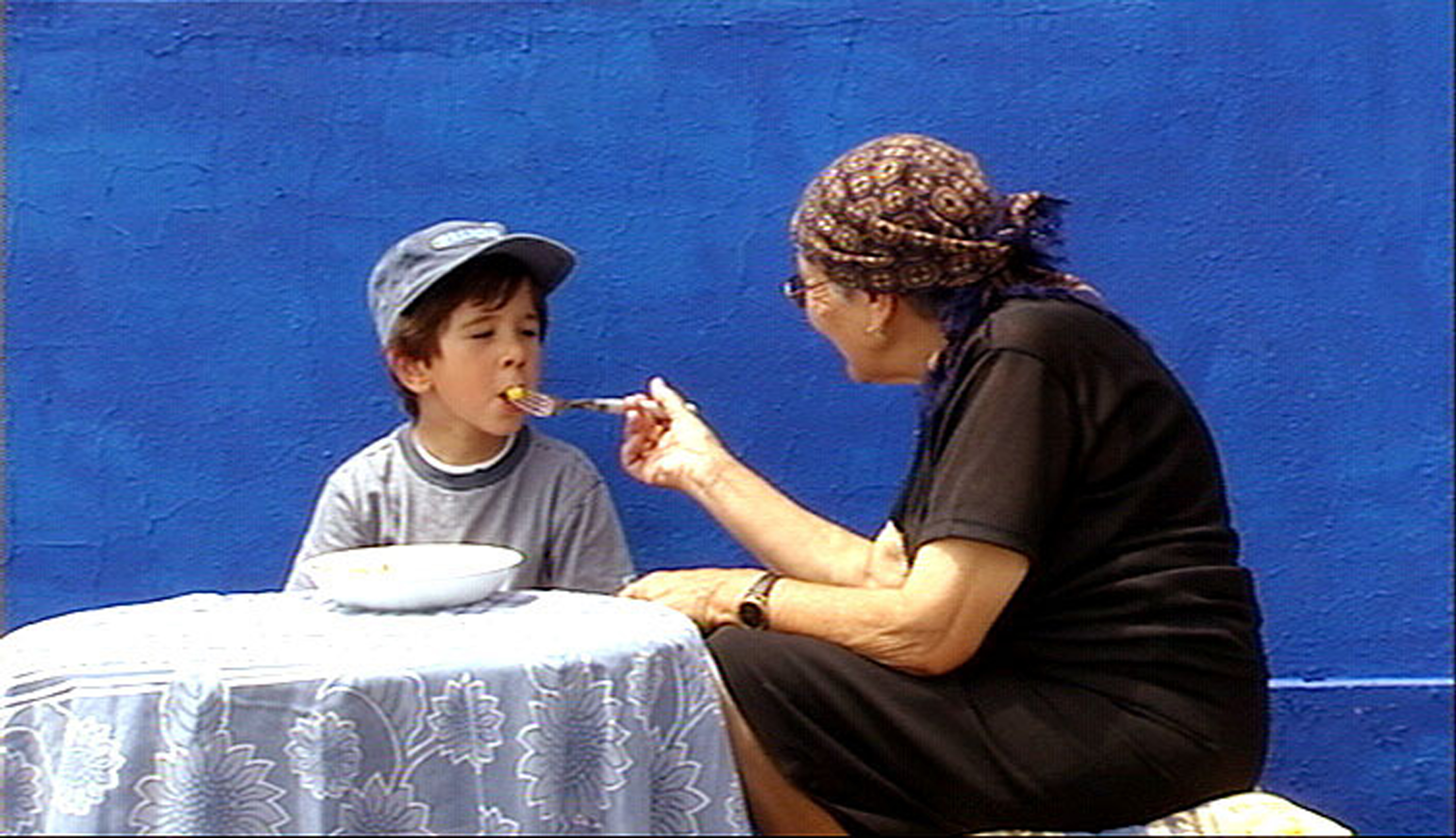 Maria José feeding her grand grand-son